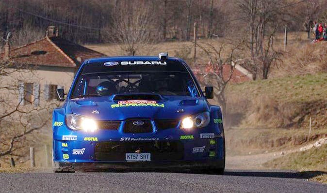 Atkinson - Prevot in Rallye de Monte-Carlo 2008